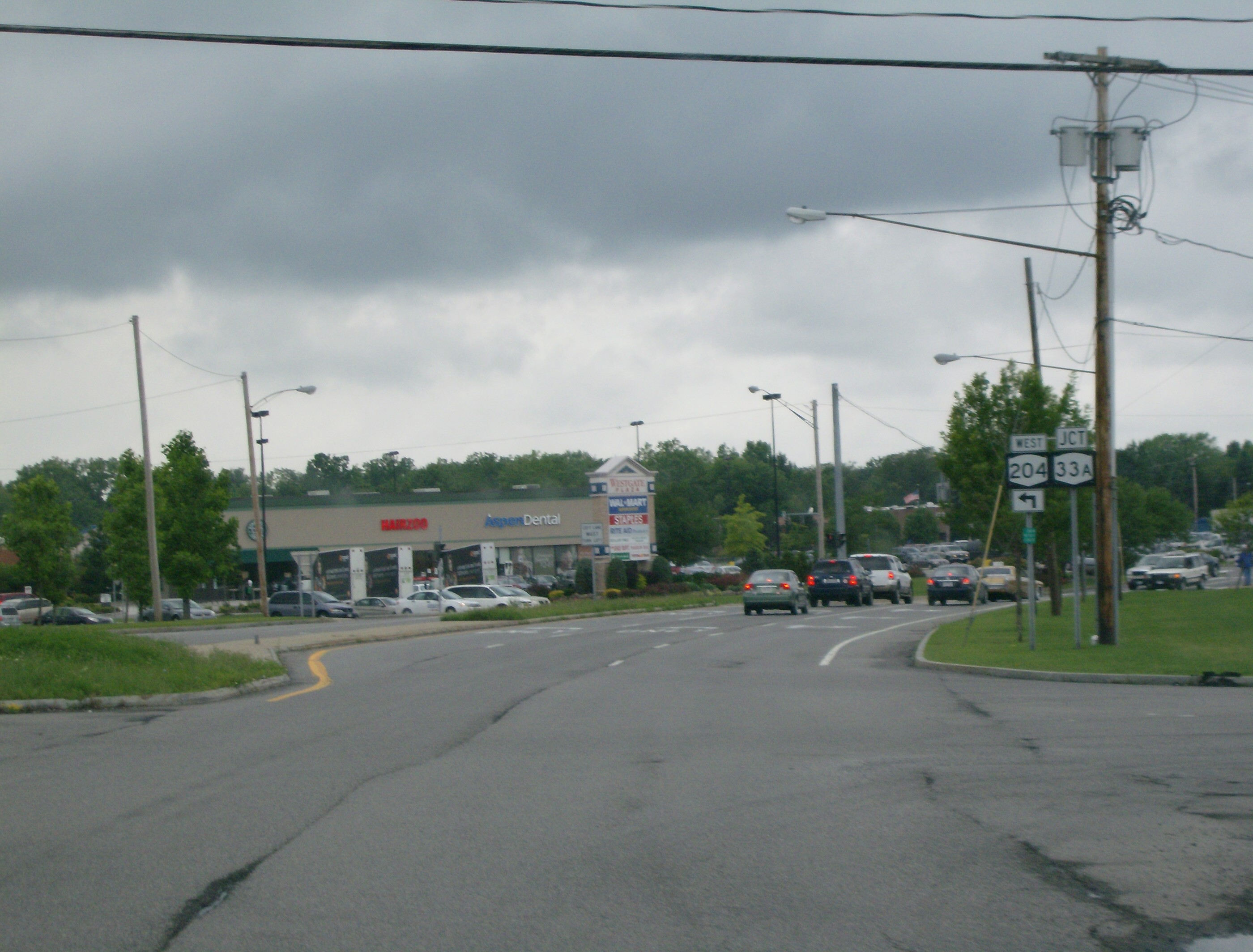 Approaching New York State Route 33A on New York State Route 204 westbound in Gates. The large Westgate Plaza is in the background.